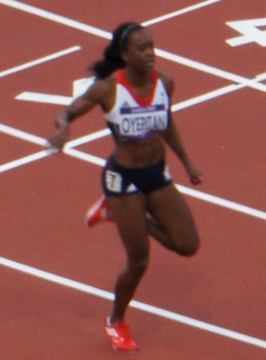 Abiodun Oyepitan competing at the 2012 Summer Olympics